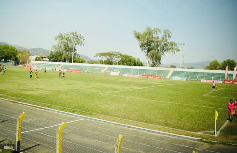 Estadio Jiboa Panorámica